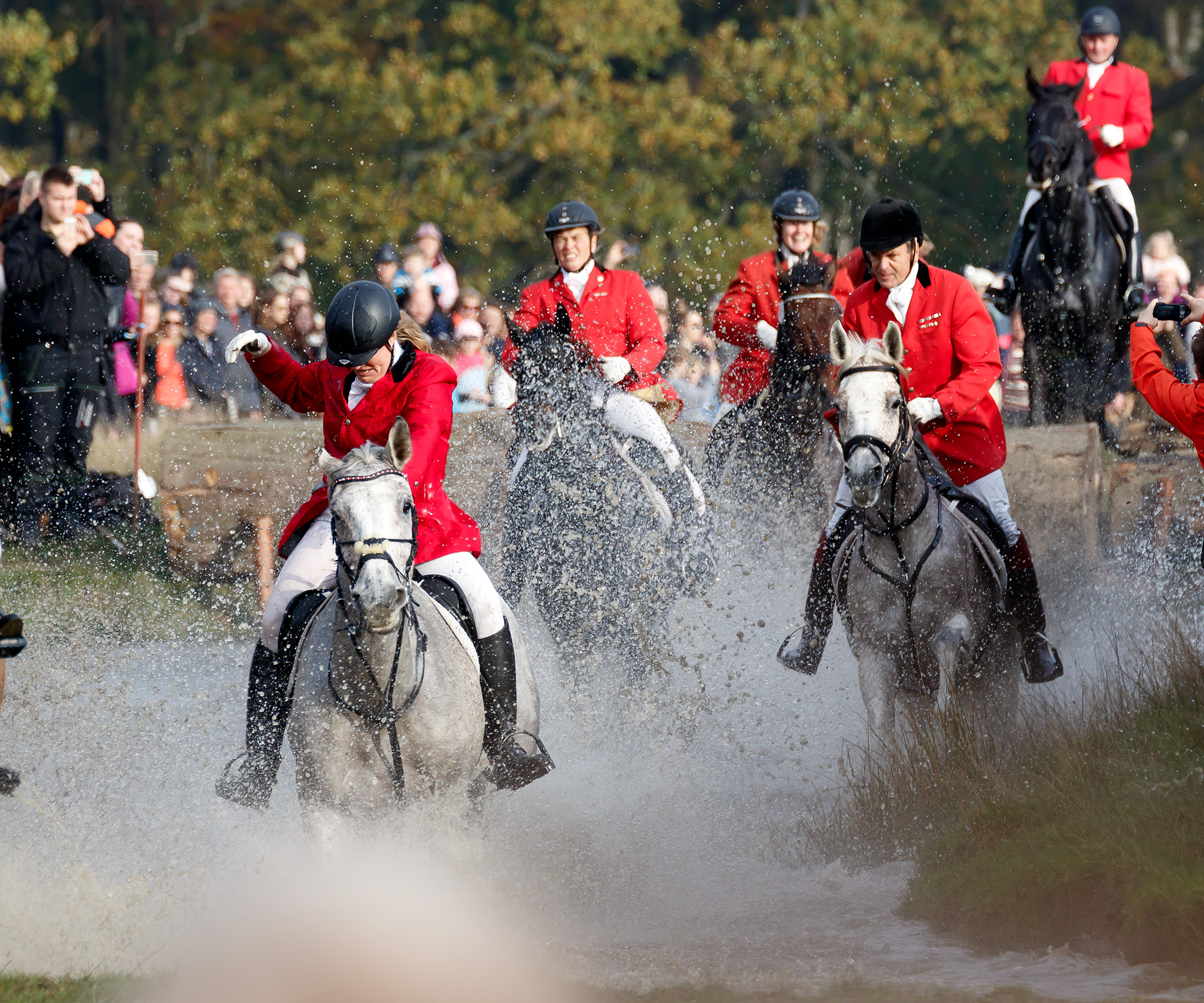 The 2014 Hubertus Hunt in Jægersborg Dyrehave North of Copenhagen, Denmark